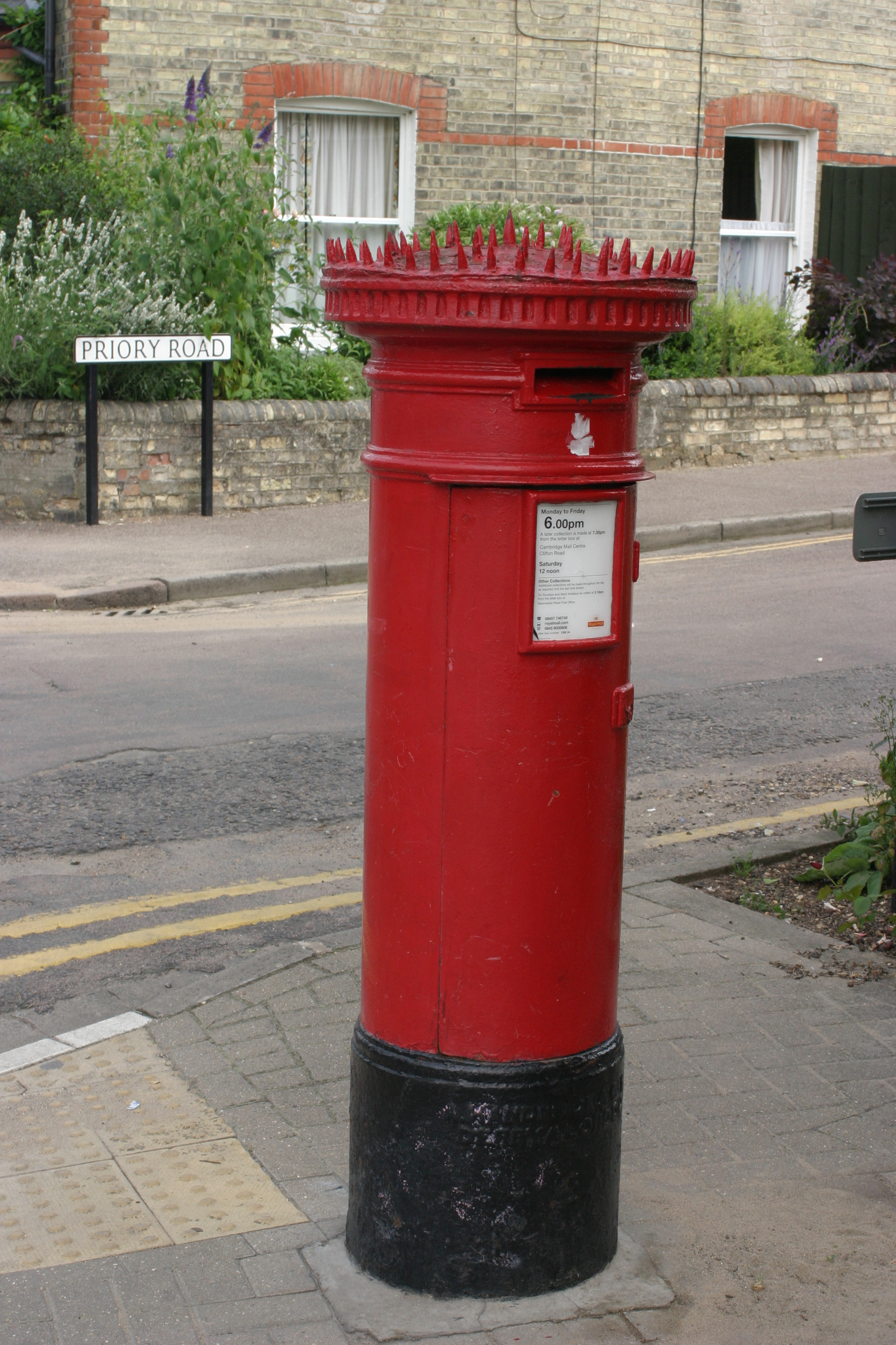 Pillar box with spiked top in Priory Road, Cambridge, England Photographed 5th May 2006 on EOS10D by Kitmaster 23:01, 21 March 2007 (UTC)